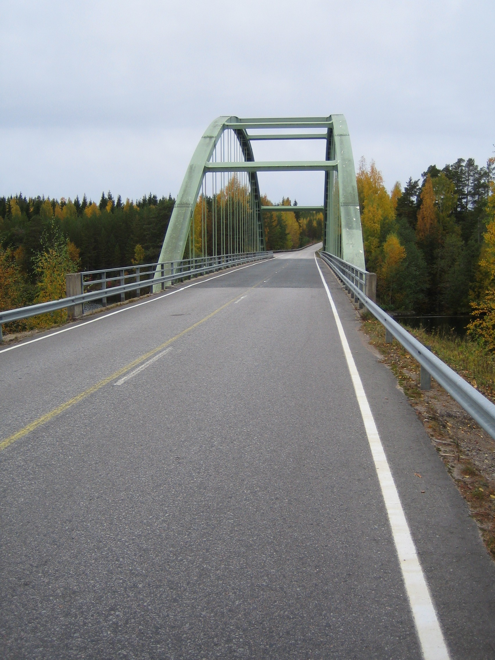 Bridge of Matilanvirta on regional road 637 in Äänekoski, Finland